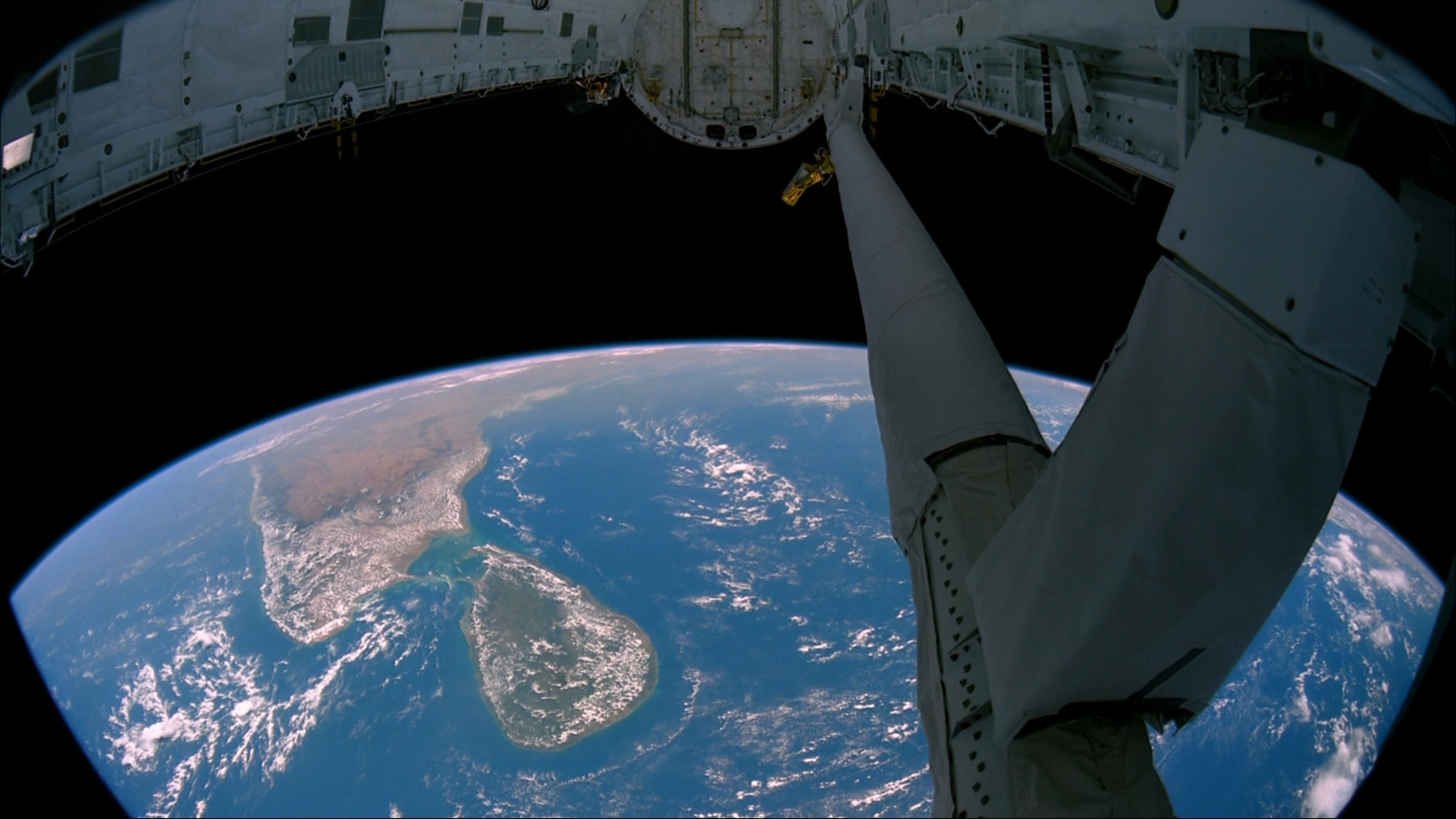 View of South India and Sri Lanka from the payload bay of the Space Shuttle in earth orbit. (Still from NASA video).